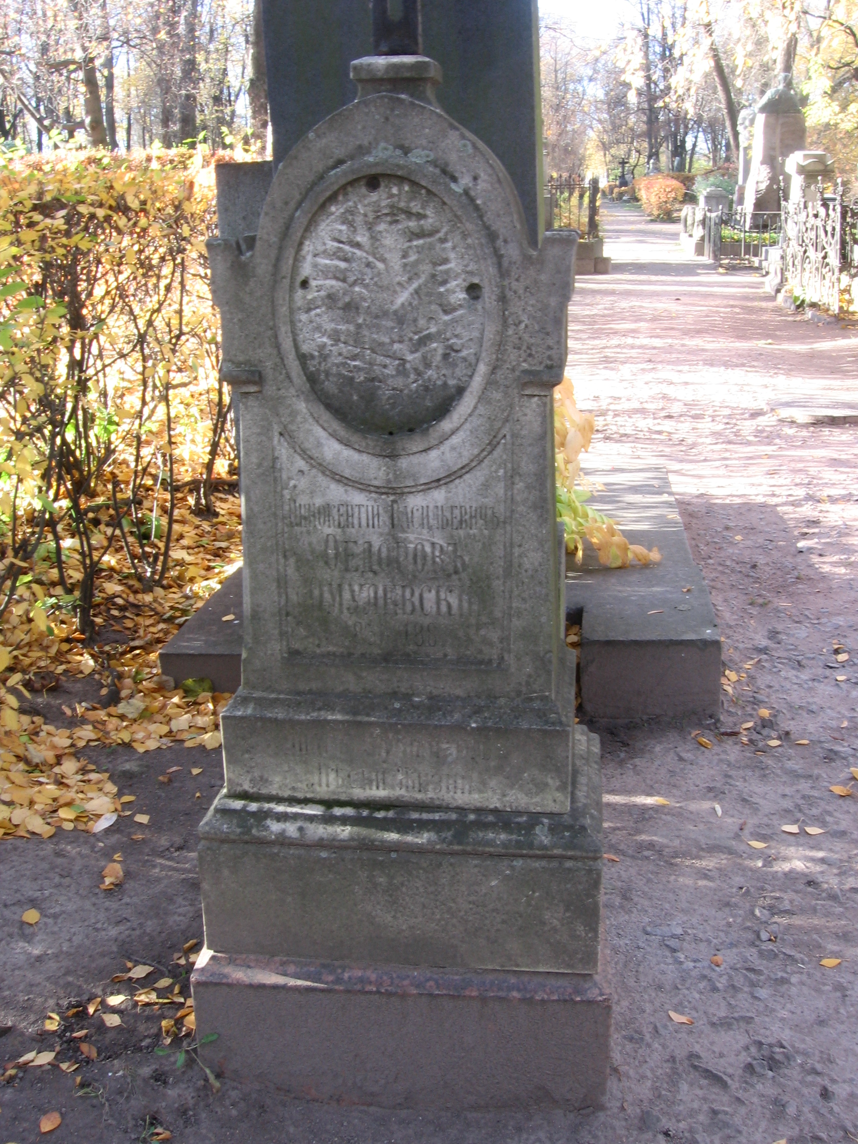 Grave of Innokentius Fyodorov-Omulevsky